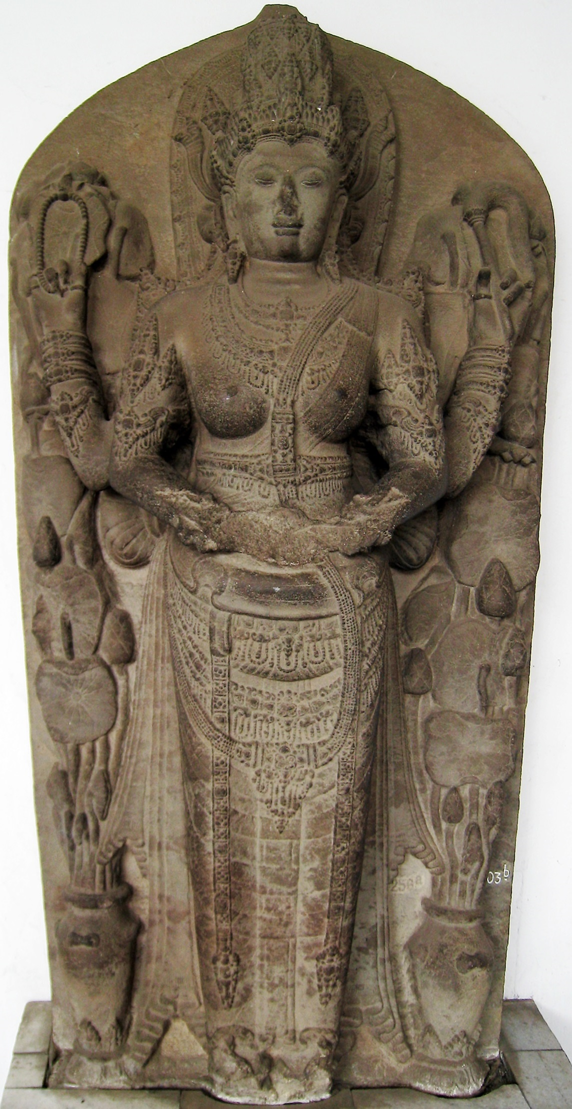 Tribhuwana Wijayatunggadewi